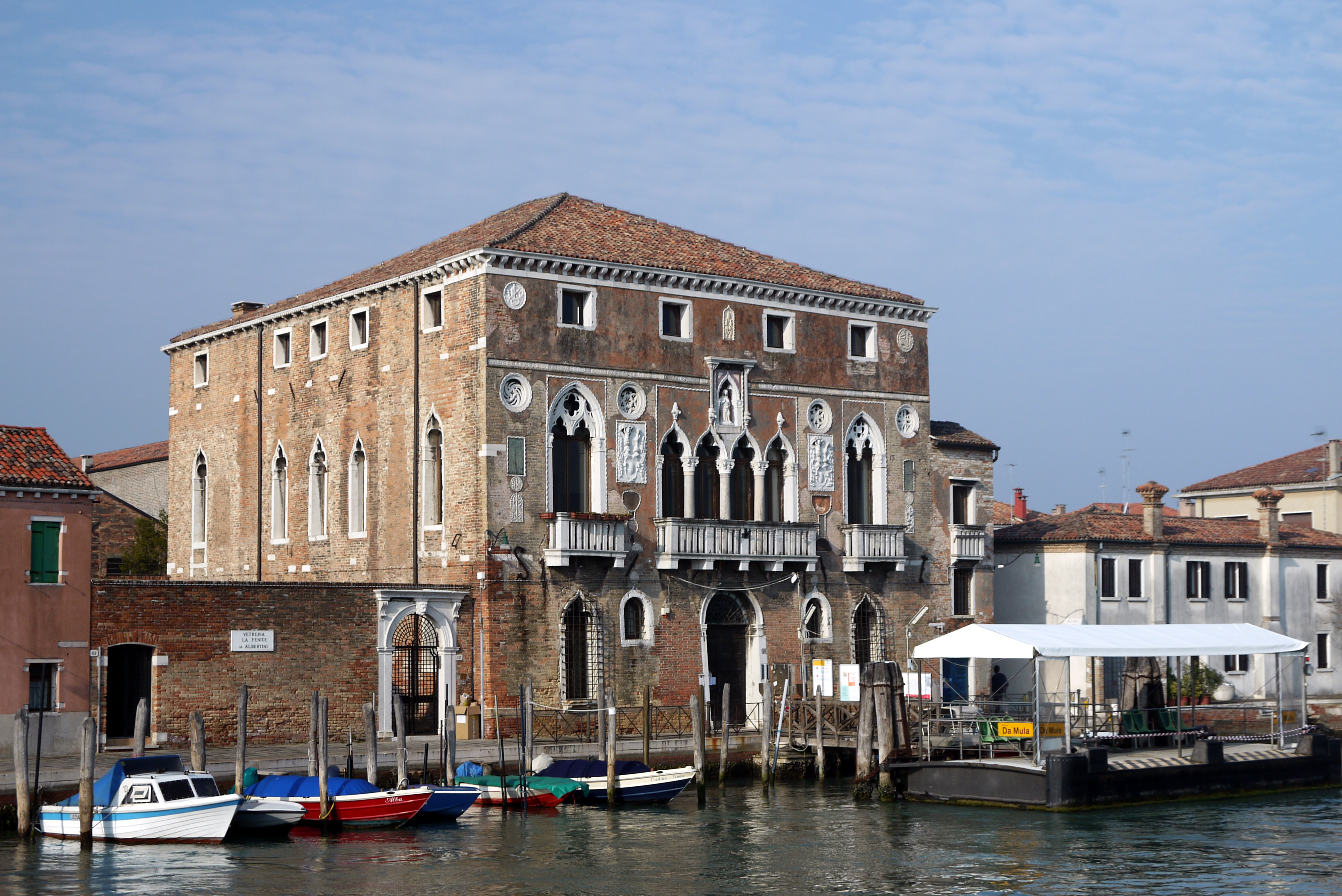 Mula Palace in Murano